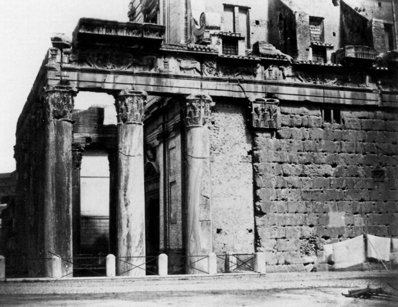 Temple of Antonius and Faustina, photo 1860.